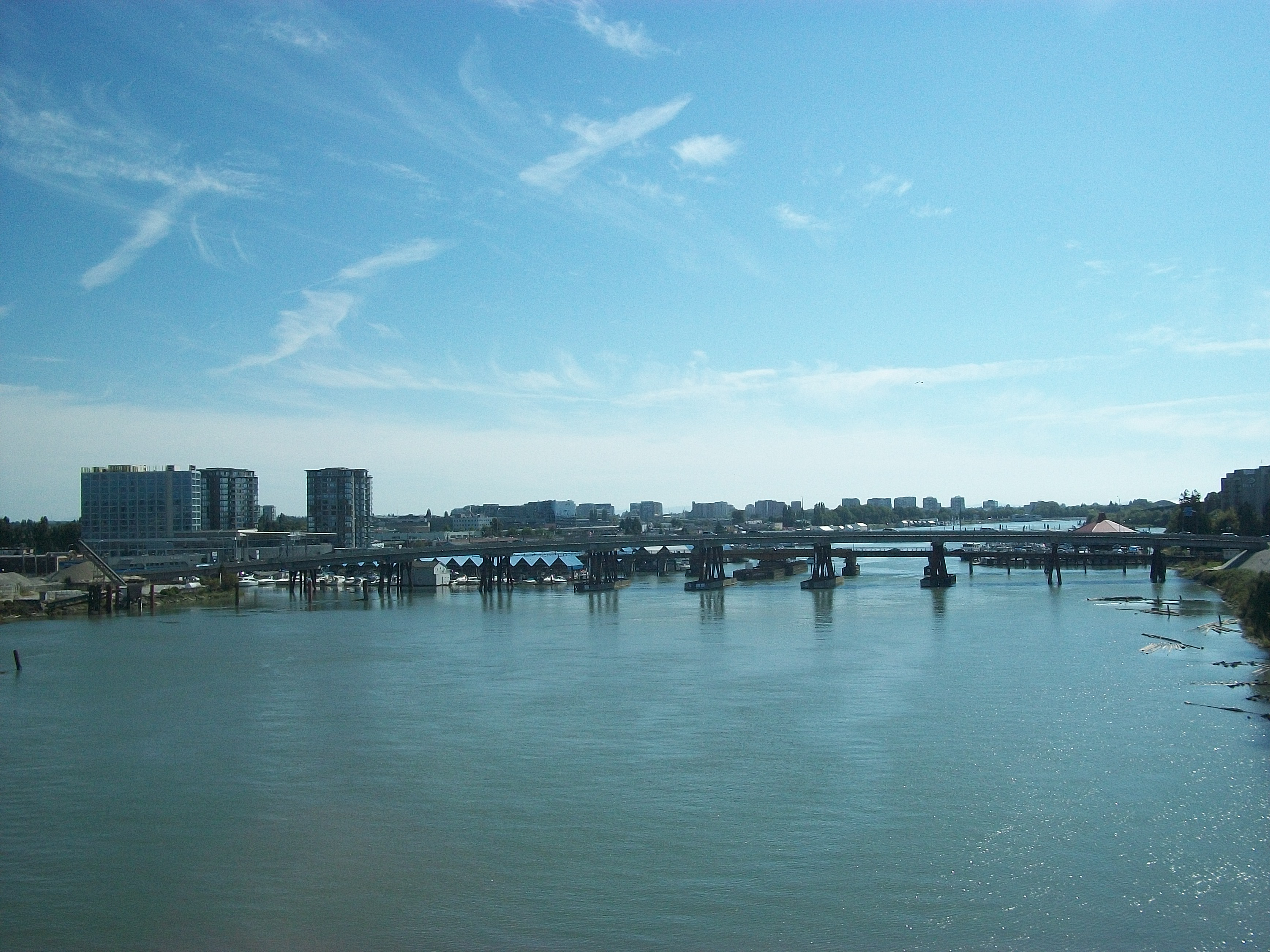 Sea Island Bridge (with the Moray Channel Bridge behind it), photographed from a SkyTrain traversing the Middle Arm Bridge